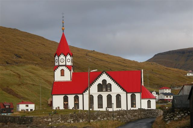 Church of Sandavágur, Faroe Islands, October 2005.